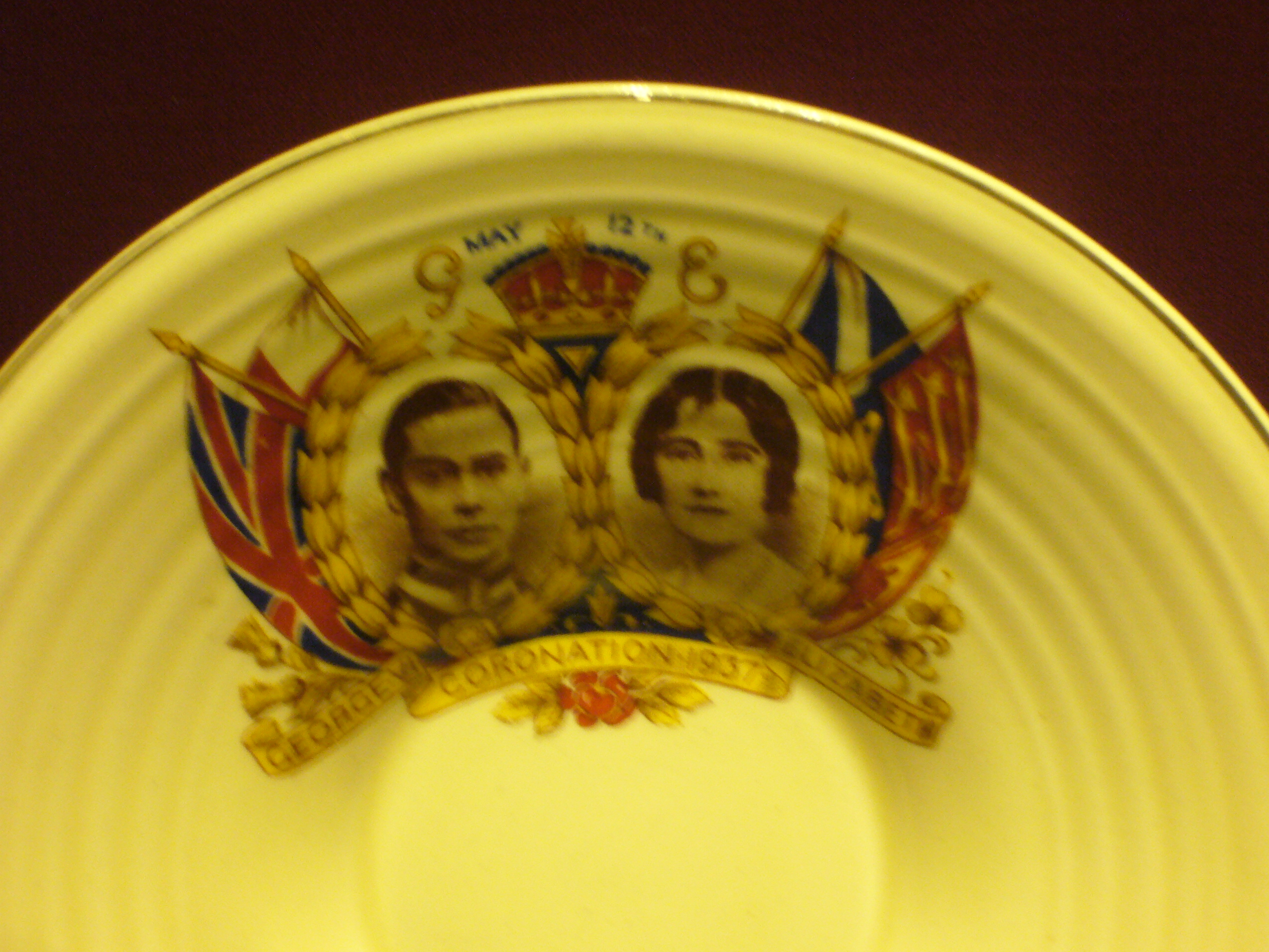 A рlate, dedicated to the coronation of George VI, the King of the United Kingdom and Elizabeth, the Queen Mother in 12 May 1937. Leventis Municipal Museum, Nicosia, Cyprus